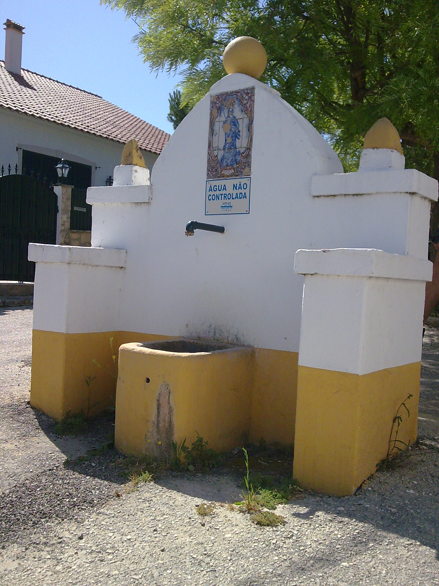 Fountain of Chão de Maçãs, Sabacheira, Tomar